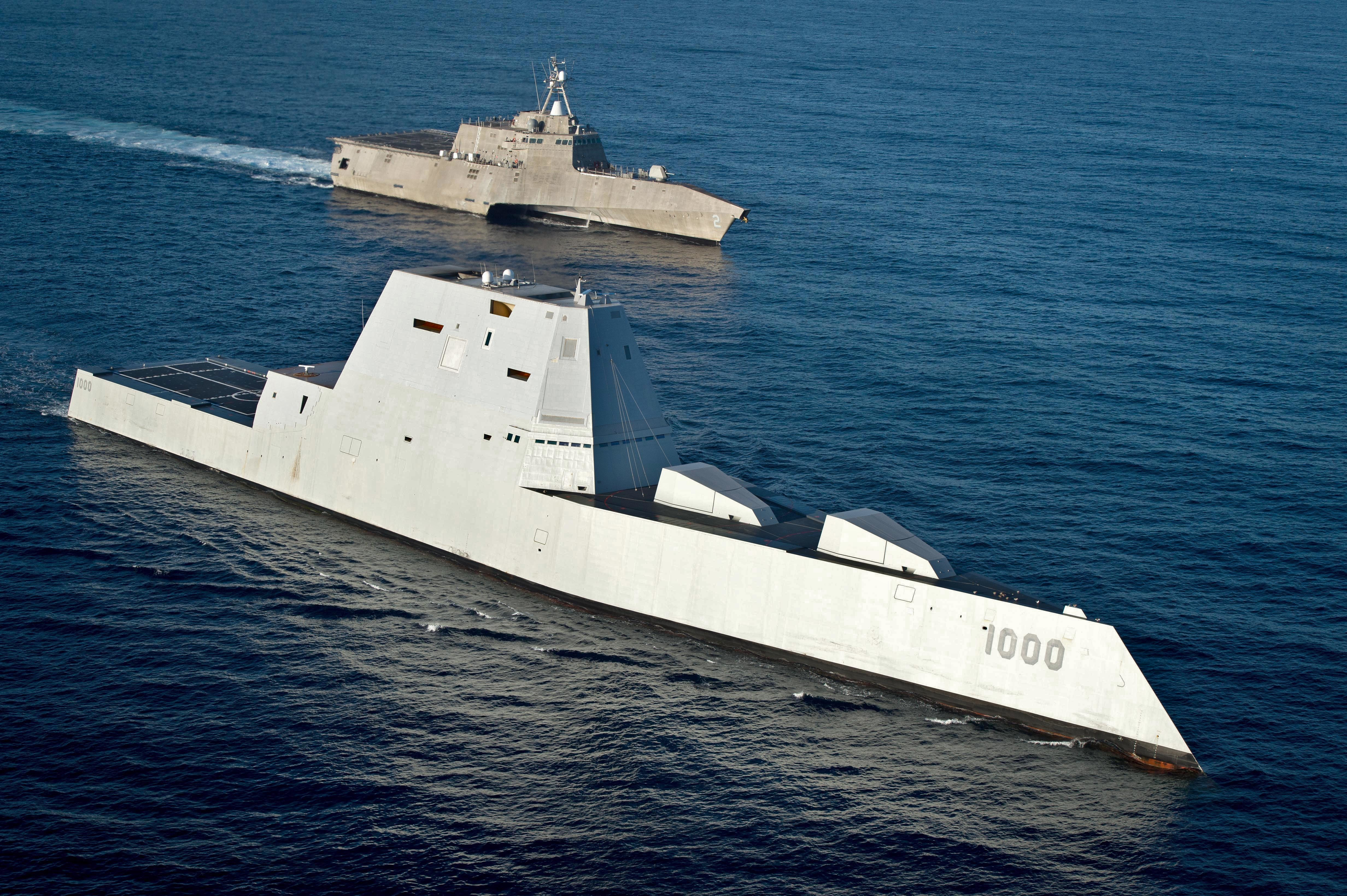 PACIFIC OCEAN (Dec. 8, 2016) The guided-missile destroyer USS Zumwalt (DDG 1000), left, the Navy's most technologically advanced surface ship, is underway in formation with the littoral combat ship USS Independence (LCS 2) on the final leg of its three-month journey to its new homeport in San Diego. Upon arrival, Zumwalt will begin installation of its combat systems, testing and evaluation, and operation integration with the fleet. (U.S. Navy photo by Petty Officer 1st Class Ace Rheaume/Released)161208-N-SI773-0401 Join the conversation: navylive.dodlive.mil